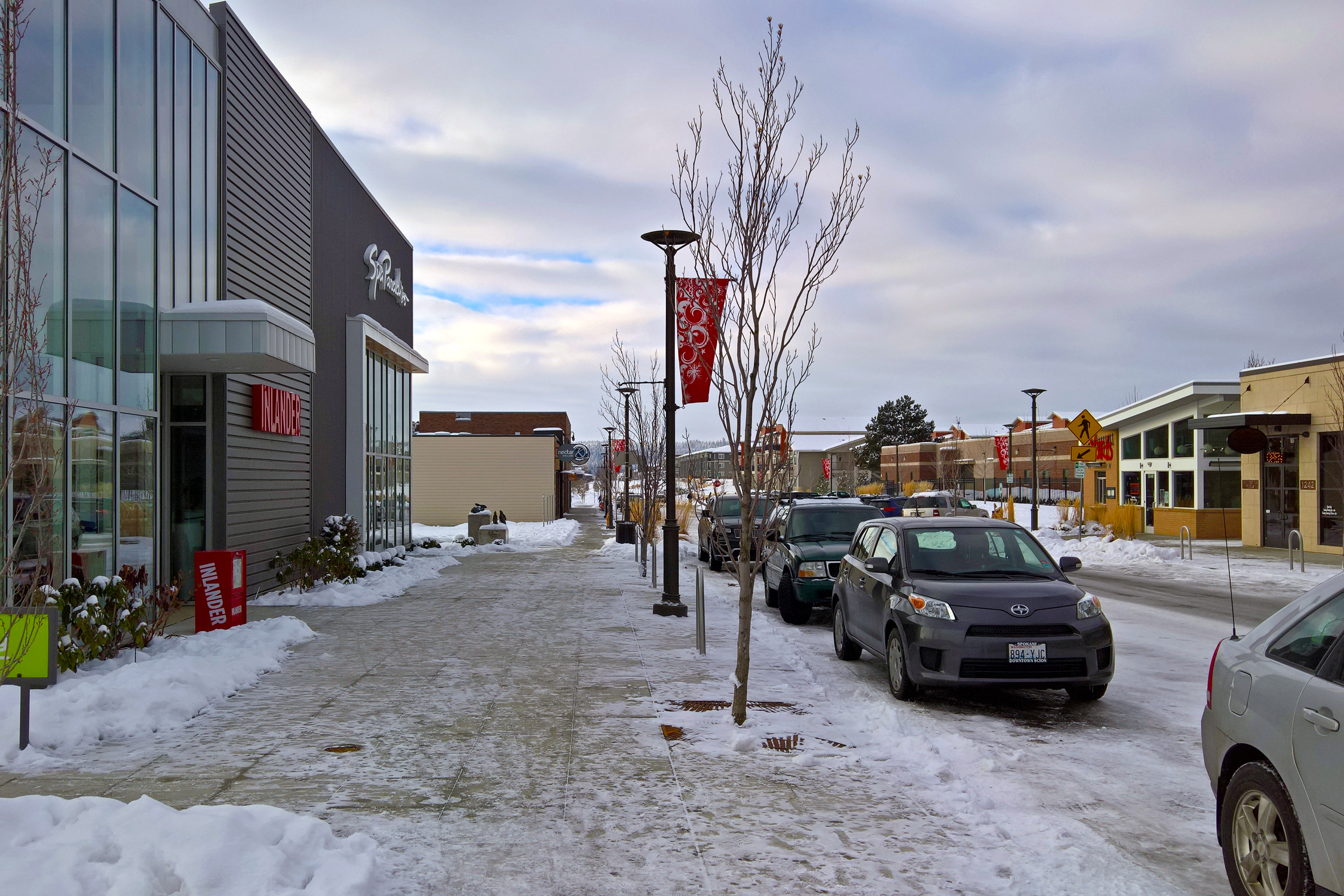 A view along Summit Parkway in the Kendall Yards development in Spokane.